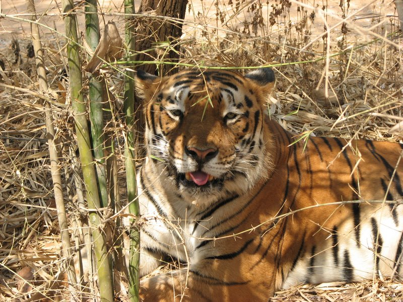 This is Indian Tiger. This photograph has been taken recently from Banerghatta Nationa Park, Bangalore, India. The park also has two white tigers. Image has been shot with Canon PowerShot S3 IS camera. The tiger is called as "Baagh" in National Language "Hindi" and many others state languages. In Marathi, another prominent Indian language, its called as "Waagh".